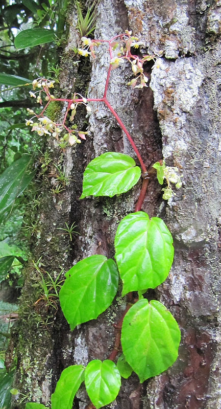 An epiphytic vine, widespread in the Neotropics. Photo from Costa Rica. In context at